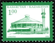 Stamp of Kazakhstan